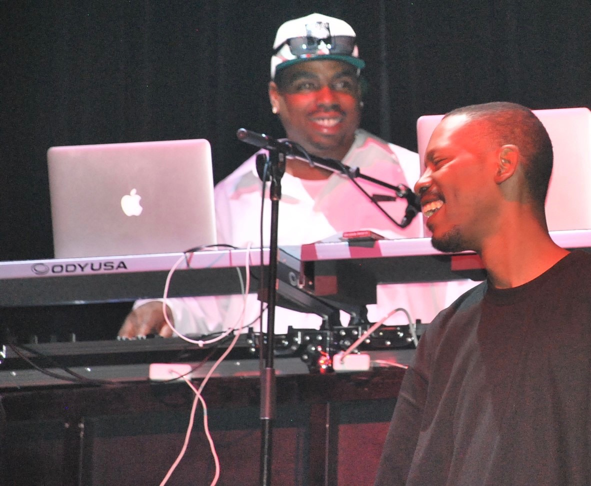 Levi's® x Snoop Dogg Pre-Grammy Party on February 5th at the Hollywood Palladium.